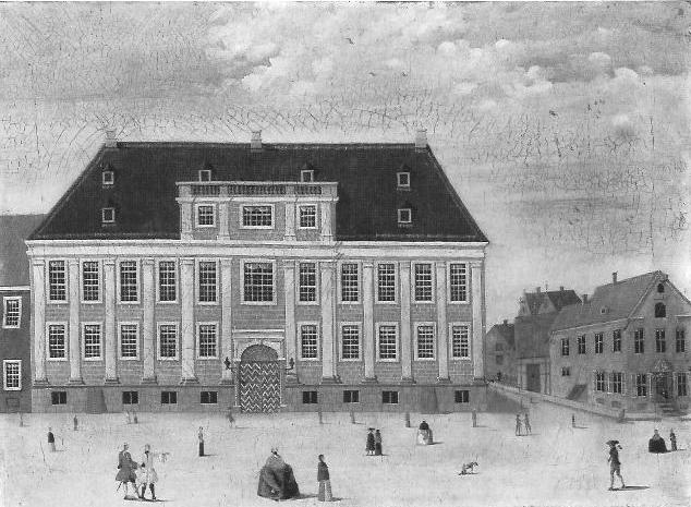 Painting of the building now housing the French Embassy in Kongens Nytorv in Copenhagen, Denmark